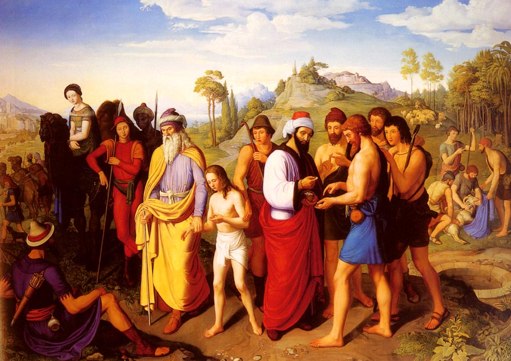 Joseph Being Sold Into Slavery